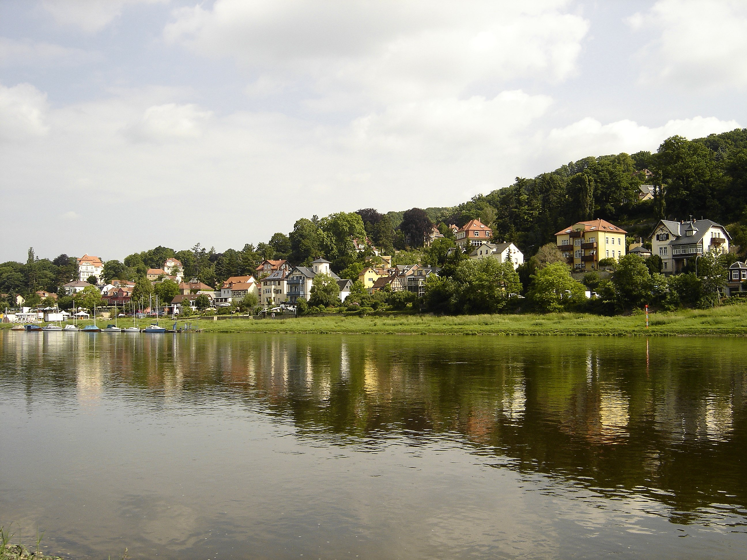 Village of Wachwitz in Dresden from the other elbe riverside